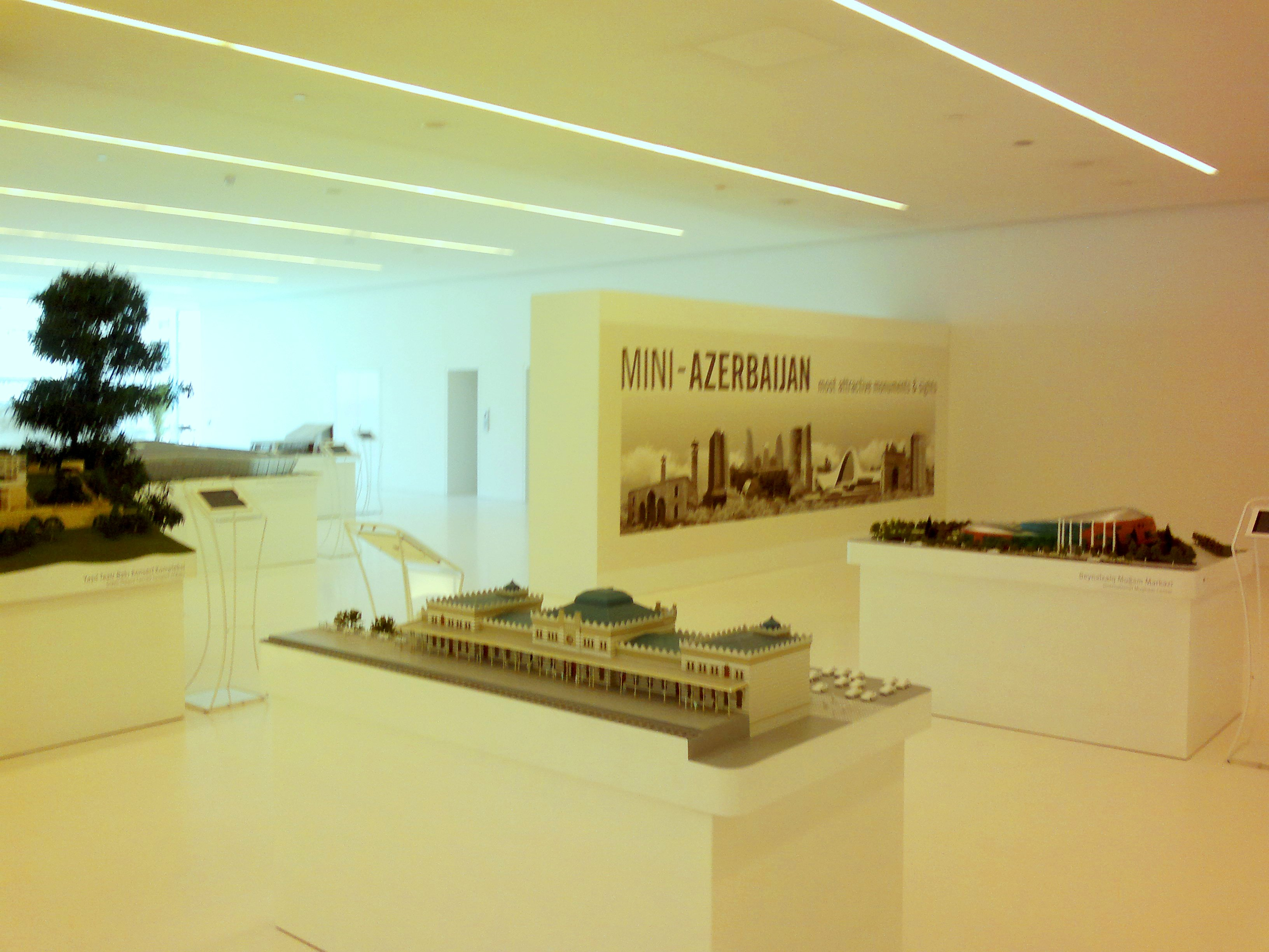 Mini Azerbaijan Hall at Heydar Aliyev Center